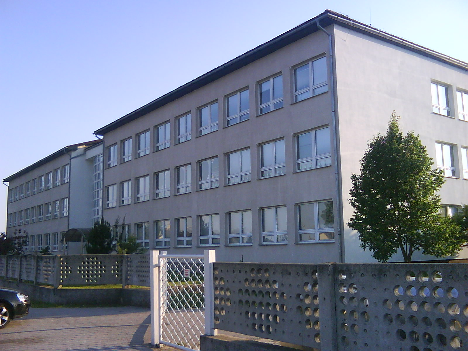 Grammar school in Sečovce.